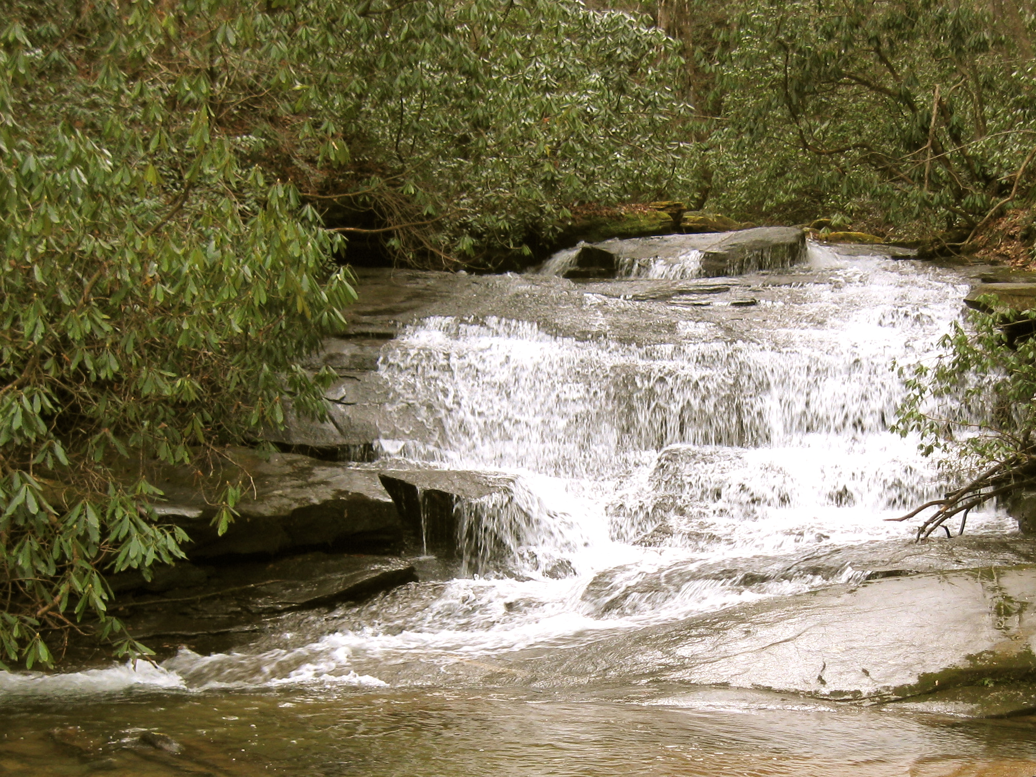 Small waterfall on Jones Gap trail, Jones Gap State Park, Greenville County, South Carolina, USA